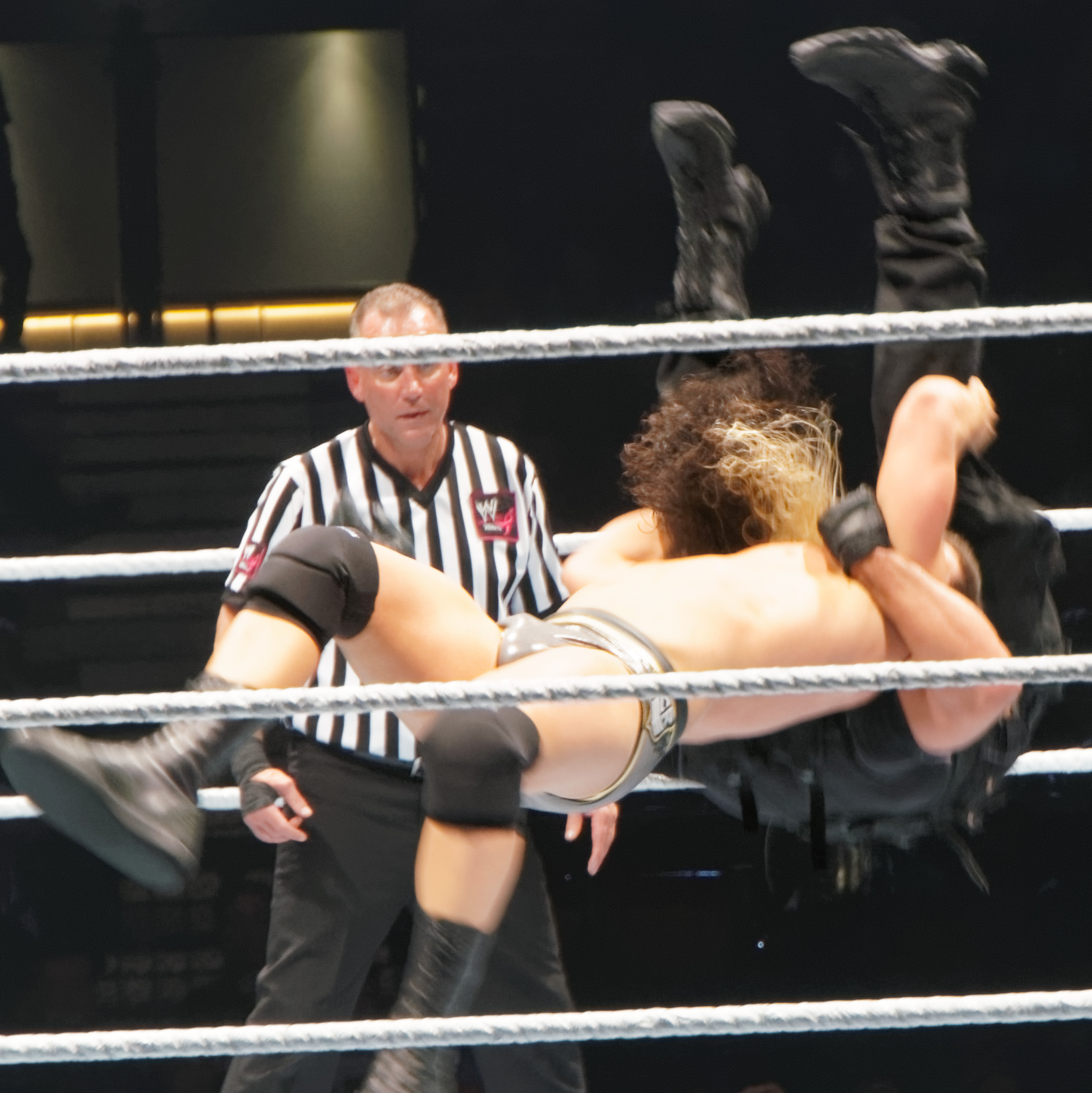 Cody Rhodes performing a "muscle buster" during a match in November 2013.